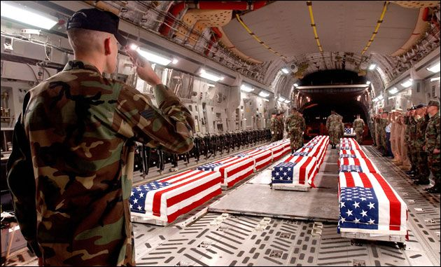 US war casualties in a C-17 Globemaster III at Dover Air Force Base This photo and 361 others have been released by the Air Force due to a Freedom of Information Act request from The Memory Hole, and can also be found at this site. Initially, the request was denied, but were released after an appeal by The Memory Hole. Shortly after the release of the photos, the Pentagon barred any further releases of photos to the media. According to Dover AFB spokesman Col Jon Anderson: "They’re not happy with the release of the photos". [1] This request was made after a civilian contractor, Ms. Silico, working for Maytag Aircraft Corporation, took a similar unauthorized photo and released it to the media. She was subsequently fired from her job, as was her husband. A mirror of these photos is at [2].